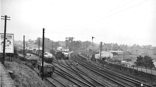 Bucksburn Station and Goods Yard, Aberdeen. View NW, ex-Great North of Scotland main line leaving Aberdeen towards Dyce etc., Huntley, Keith and Elgin. The station had been closed to passengers 5/3/56, but was still open for goods (until 22/4/68) and the main line to Elgin and Inverness survives